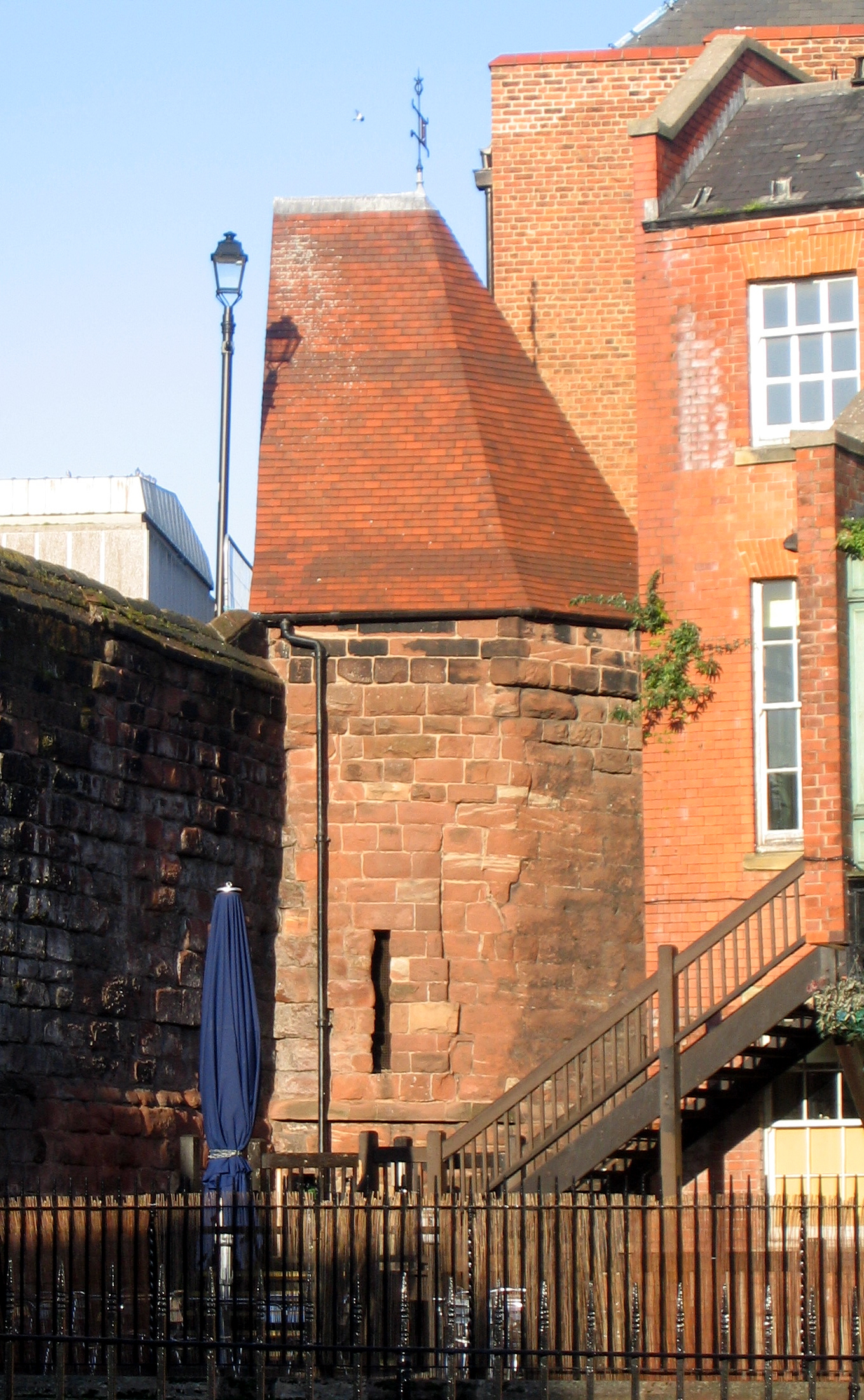 Photograph of Thimbleby's Tower, Chester City Walls